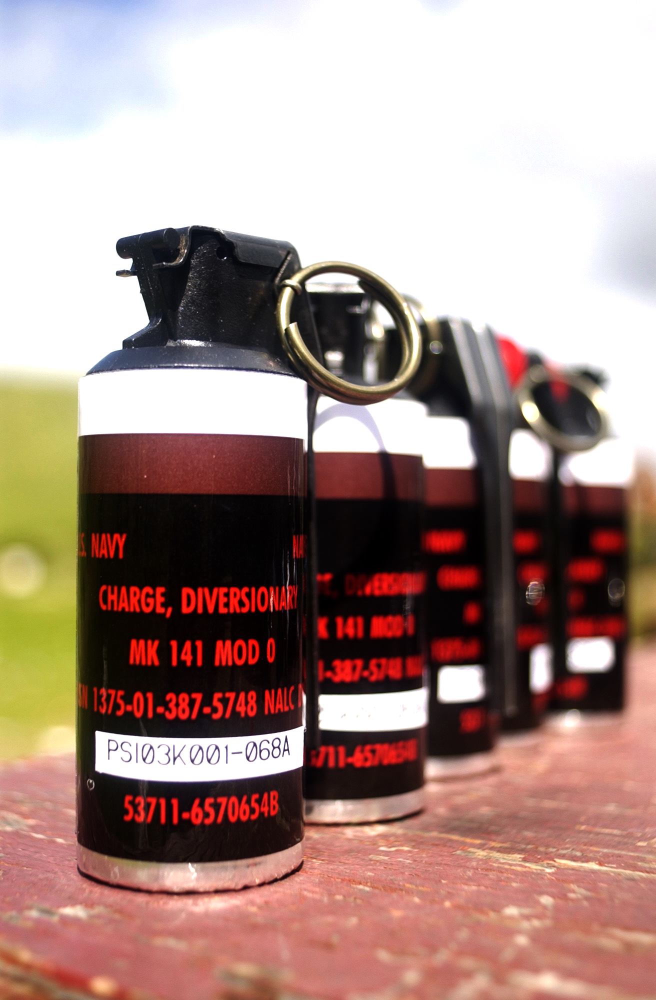 Range 201 Camp Pendleton became a July 4th holiday as Marines from MMSG-13 and Base Military Police, trained with the MK 141 pyrotechnic devise that explodes in the air with a brilliant flash of light. The flash bang is used for diversionary purposes and produces no shrapnel, but is very affective with sound and flash.